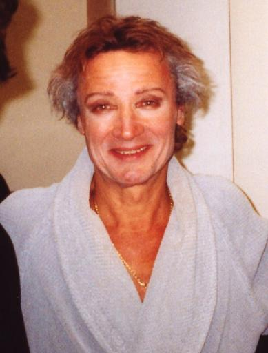 Roberto Sturno Attore Teatrale Italiano Il Bugiardo backstage